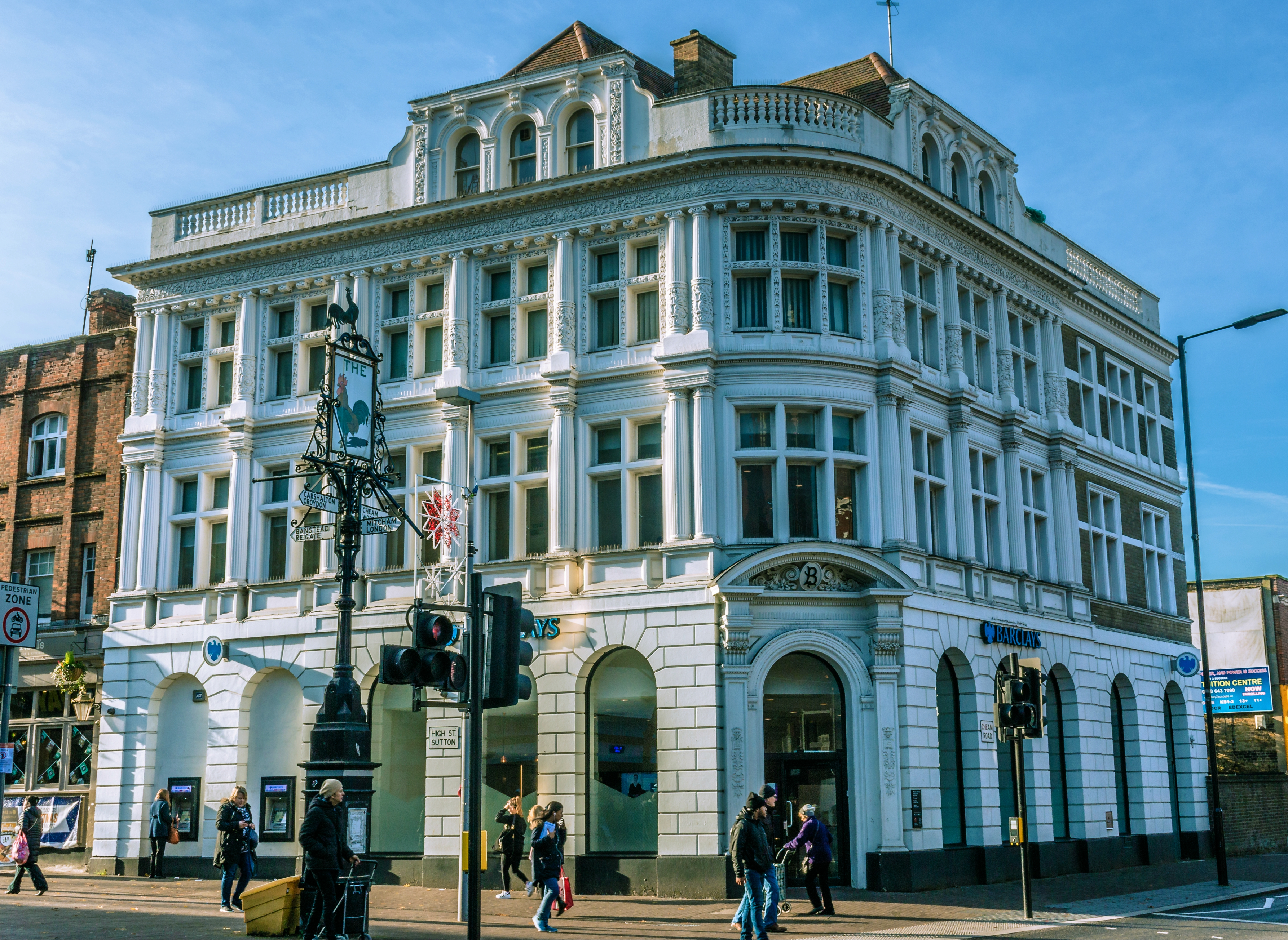 The Barclays Bank building, a four-storey locally listed building overlooking the historic crossroads in the town centre of Sutton in the south London Borough of Sutton. It was built in 1894, originally as the London and Provincial Bank. The building is situated at the junction of Cheam Road and Sutton High Street, the location of the crossroads of the historic turnpike roads which passed through the town. It is located in the Sutton Town Centre High Street Crossroads Conservation Area, which was designated on 9 May 2011. The building is four storeys in height and of ornate design. It forms a prominent landmark when arriving in the town centre from a westerly direction. There is a series of arches at ground level within rusticated stonework. The main entrance is on the corner where the two roads meet, rounded in shape and surrounded by an ornate architrave and segmental pediment, which together serve to create a sense of importance for the bank. The second storey has fluted columns and simple cross windows. The windows, columns and dentil on the third storey are surrounded by decorative carvings. The attic is on the fourth storey and set within a decorative, balustraded parapet under which there is a decorative frieze.